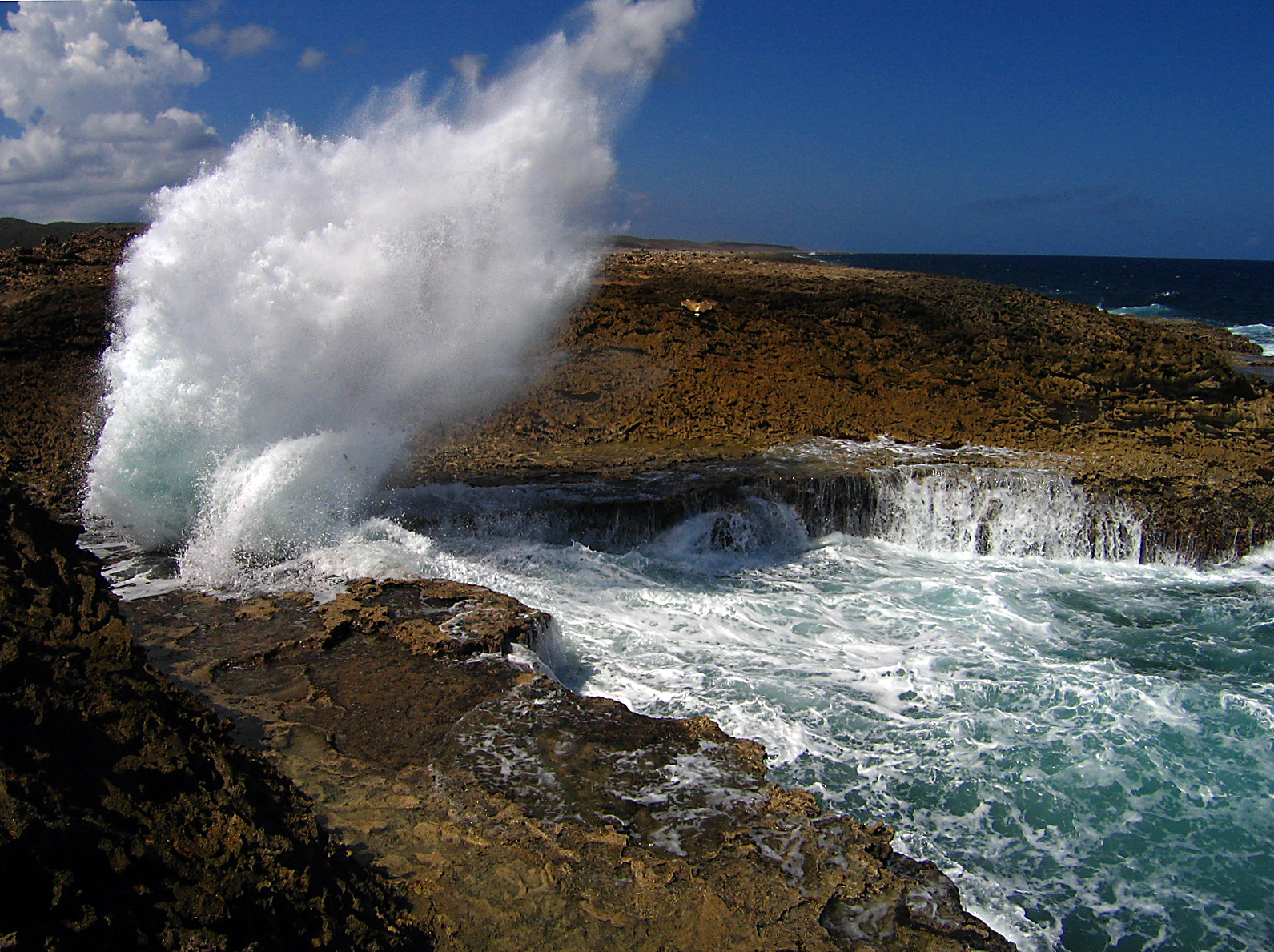 Boka Pistol is a small bay in Shete Boka national park, Curaçao. Water of the Caribbean sea is compressed into the bay and pushed out with gun shot like sounds, hence the name Boka Pistol.